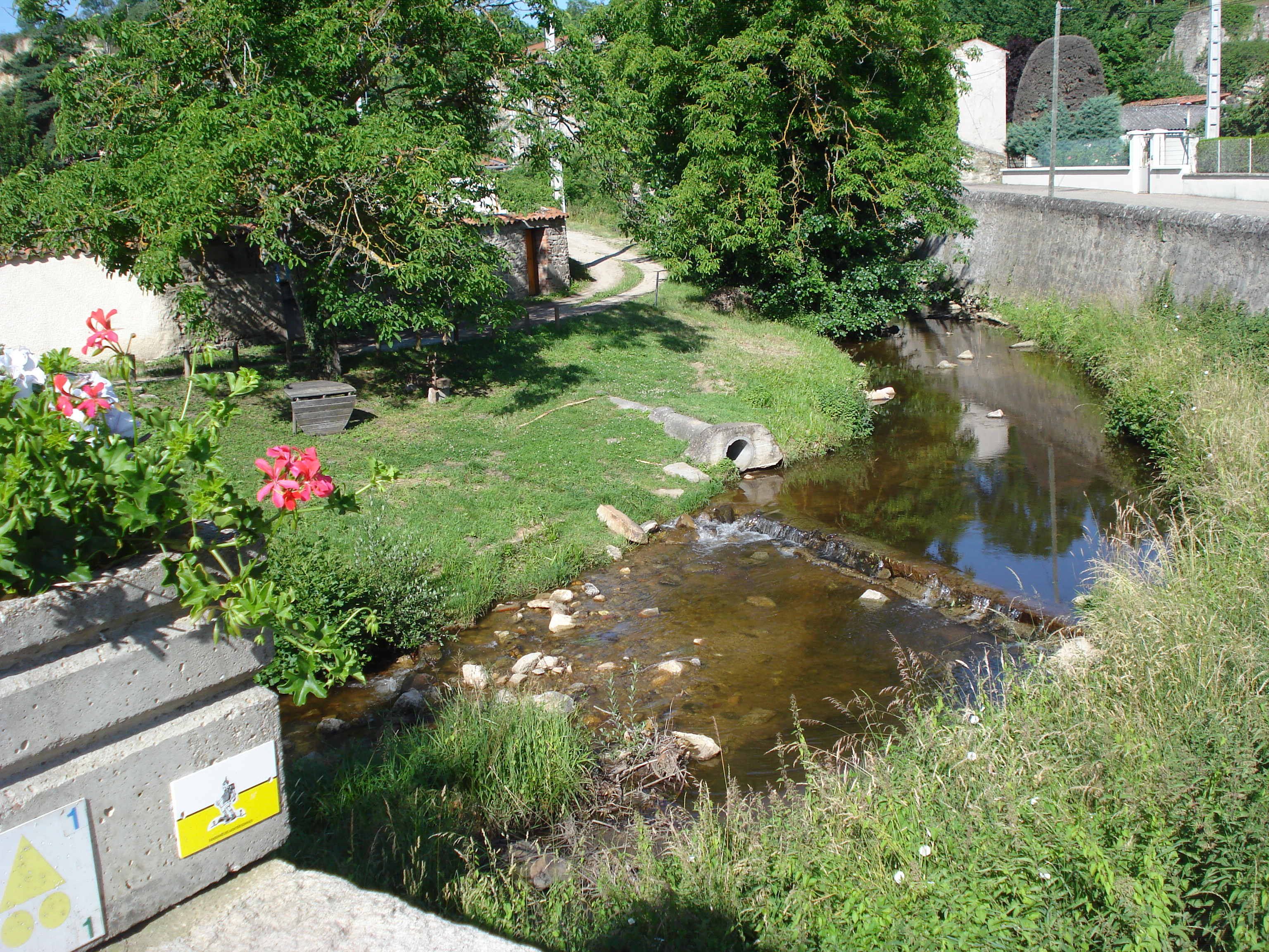 Moingt (river) at Moingt (municipality of Montbrison, Loire, Fr), with white-yellow hiking marks of Petite Randonnée